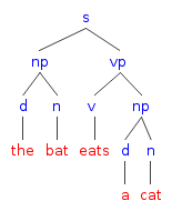 A parse tree of an English sentence that describes the villanous slaying and consumption of a cat by a villianous bat.